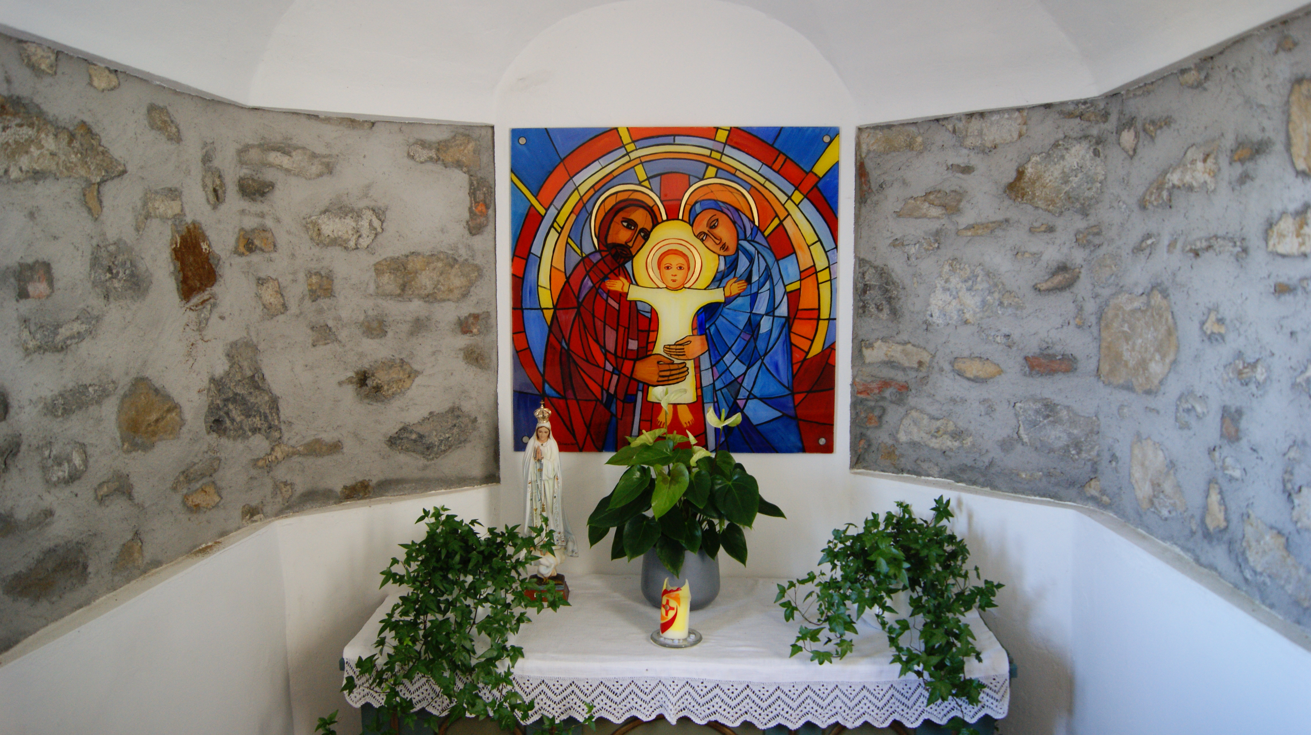 Bürgle chapel in the local centre Bürgle in Dornbirn, Vorarlberg, Austria. Altarpiece.